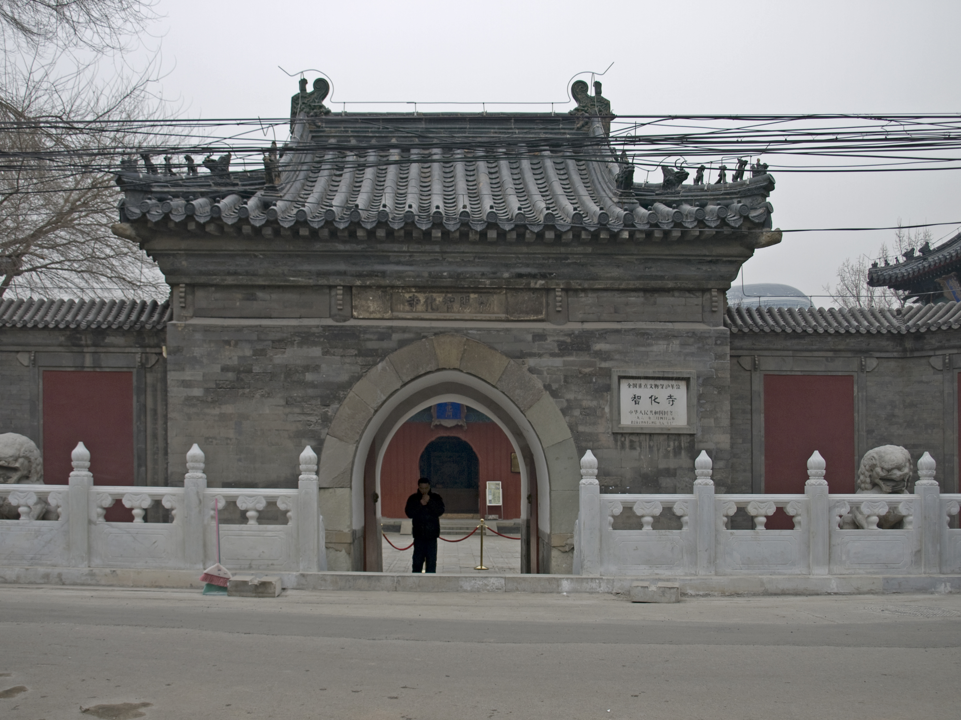 Entrance to Zhihua Temple